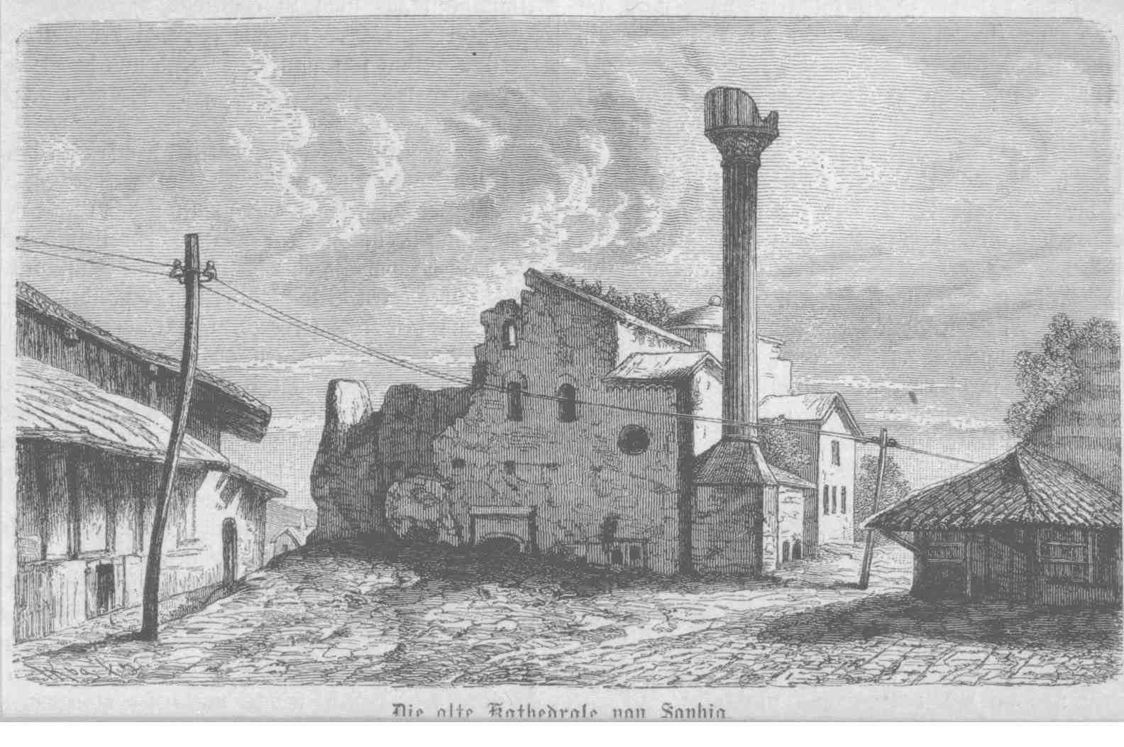 A sketch from a German newspaper of the Hagia Sophia church in Sofia, (converted into a mosque and abandoned after an earthquake) 1878.